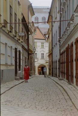 Bratislava town centre street, photo by Asterion